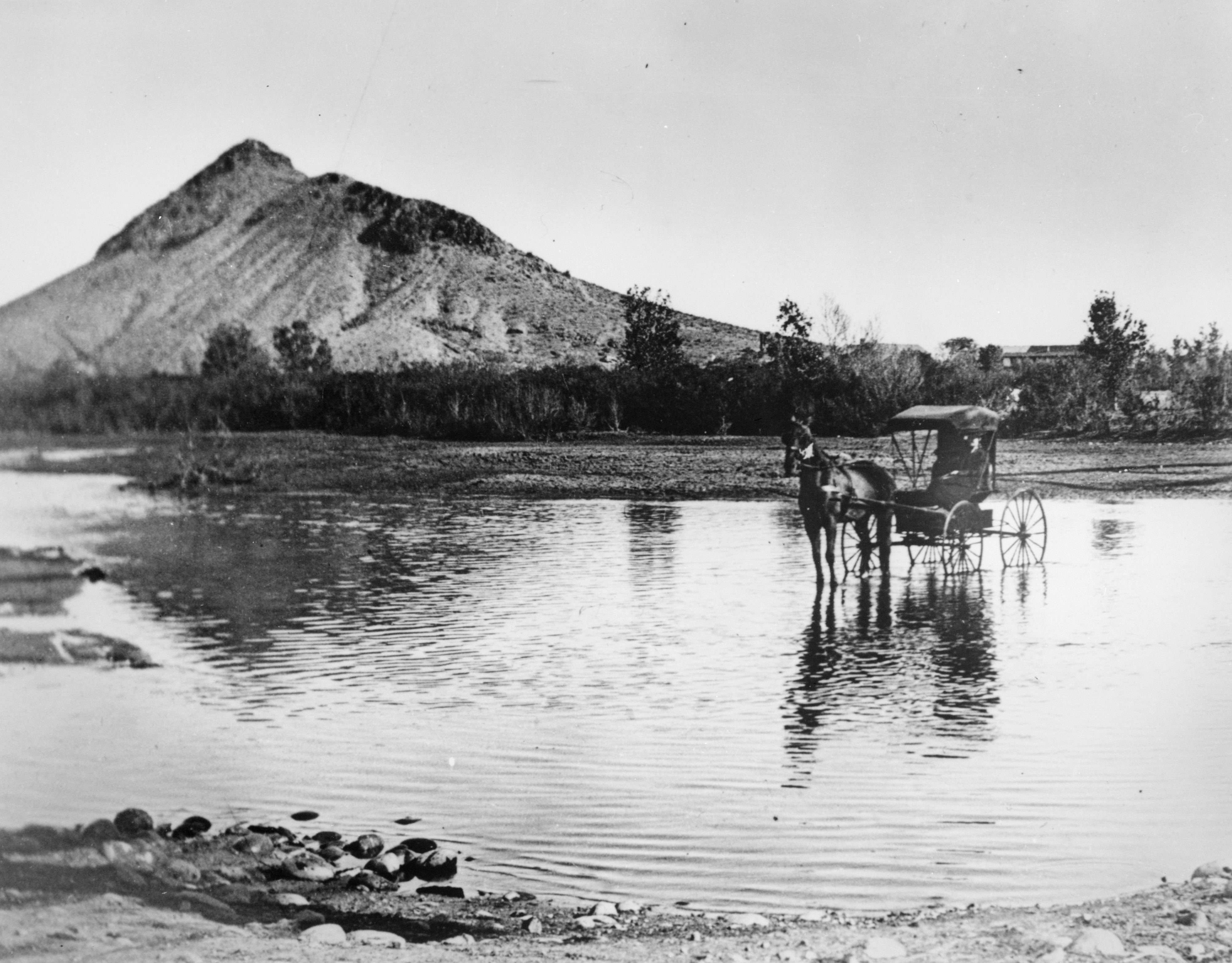 Ford across Salt River at modern day site of Ash Avenue Bridge, Tempe, Arizona. View looking southeast toward Tempe Butte.